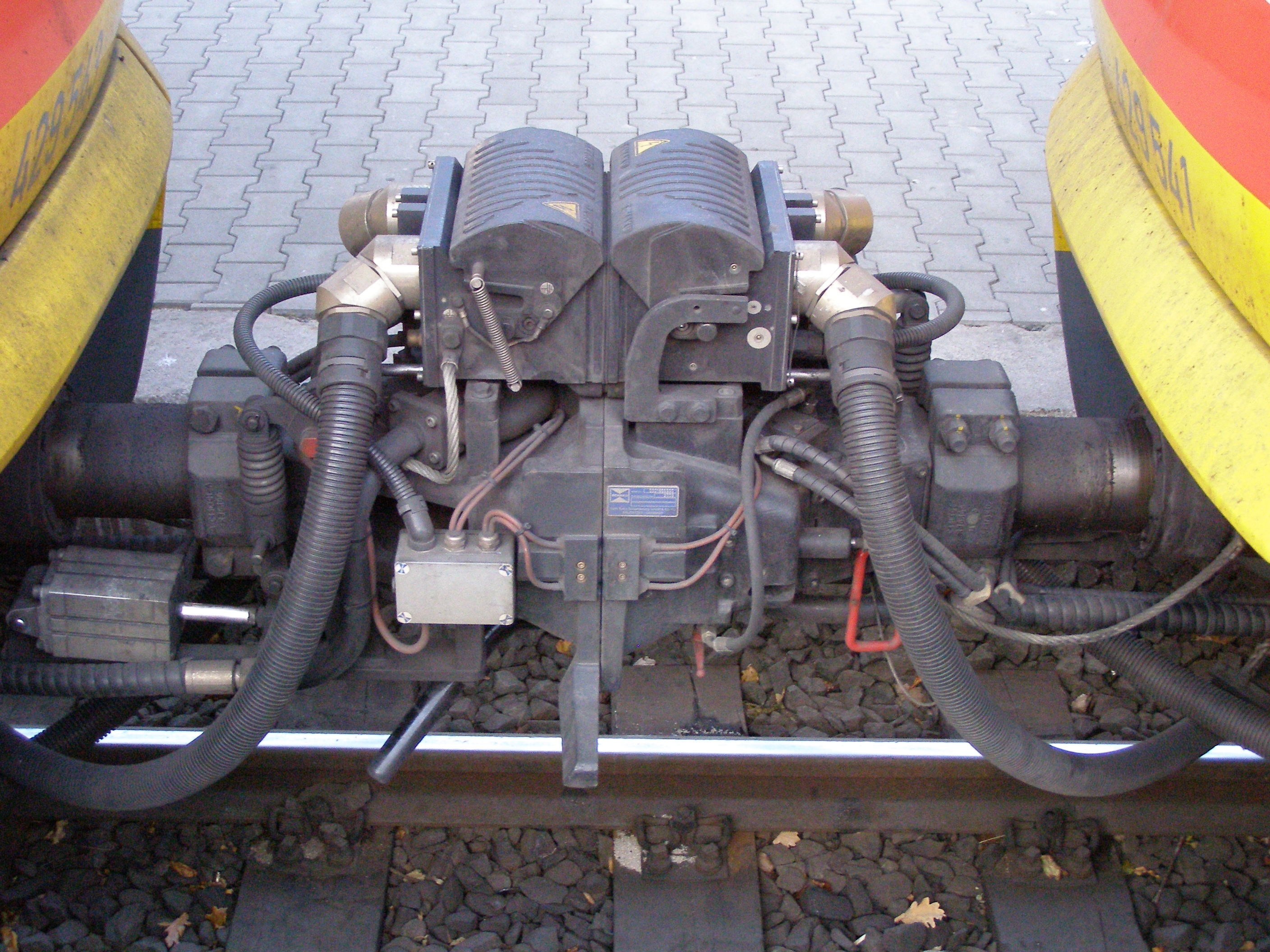 Frankfurt (Main) Hbf. - coupling of FLIRT 429-041 and -043 trainsets of Hessisches Landesbahn (HLB) railway